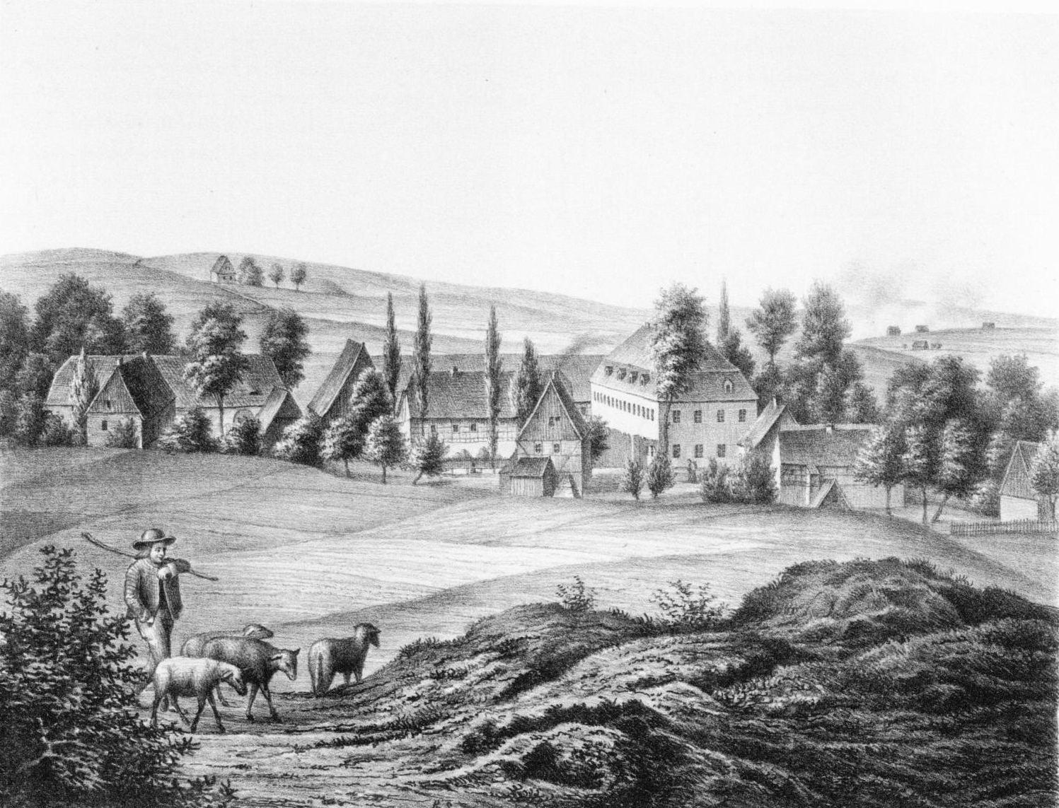 manor Tuttendorf in the Erzgebirge